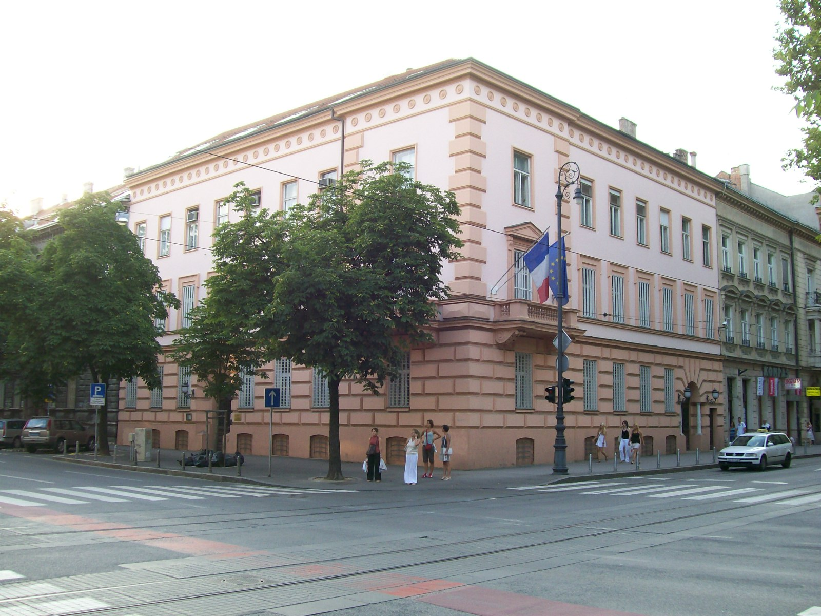 French Embassy in Zagreb, Croatia (ex-US Embassy)